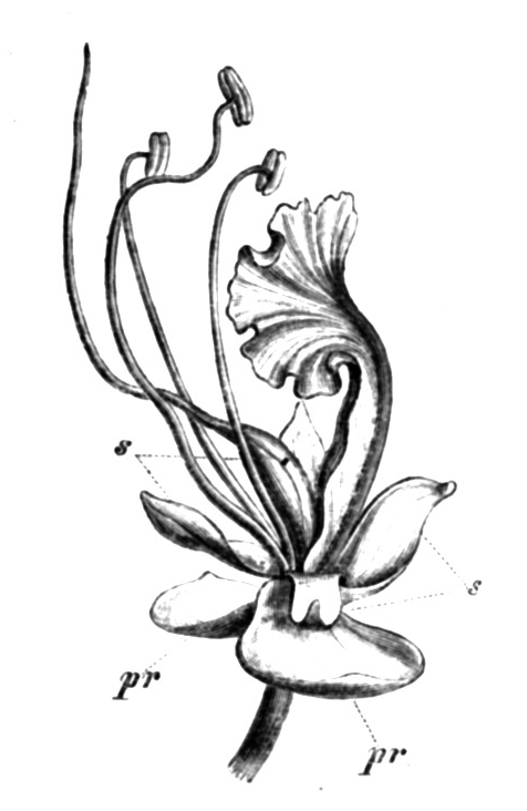 Illustration from book